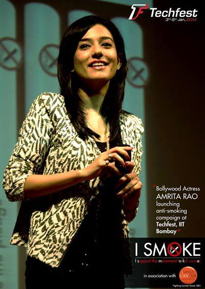 Bollywood actress Amrita Rao at the launch of ISMOKE campaign